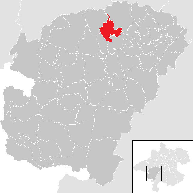 District Vöcklabruck